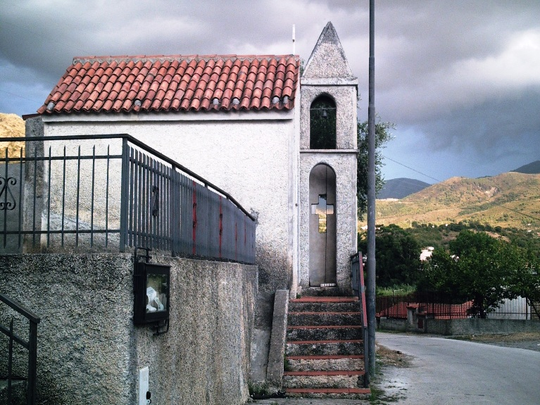 chapel of Castrocucco